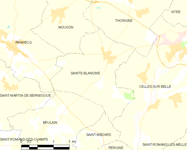 Map of French municipality Sainte-Blandine